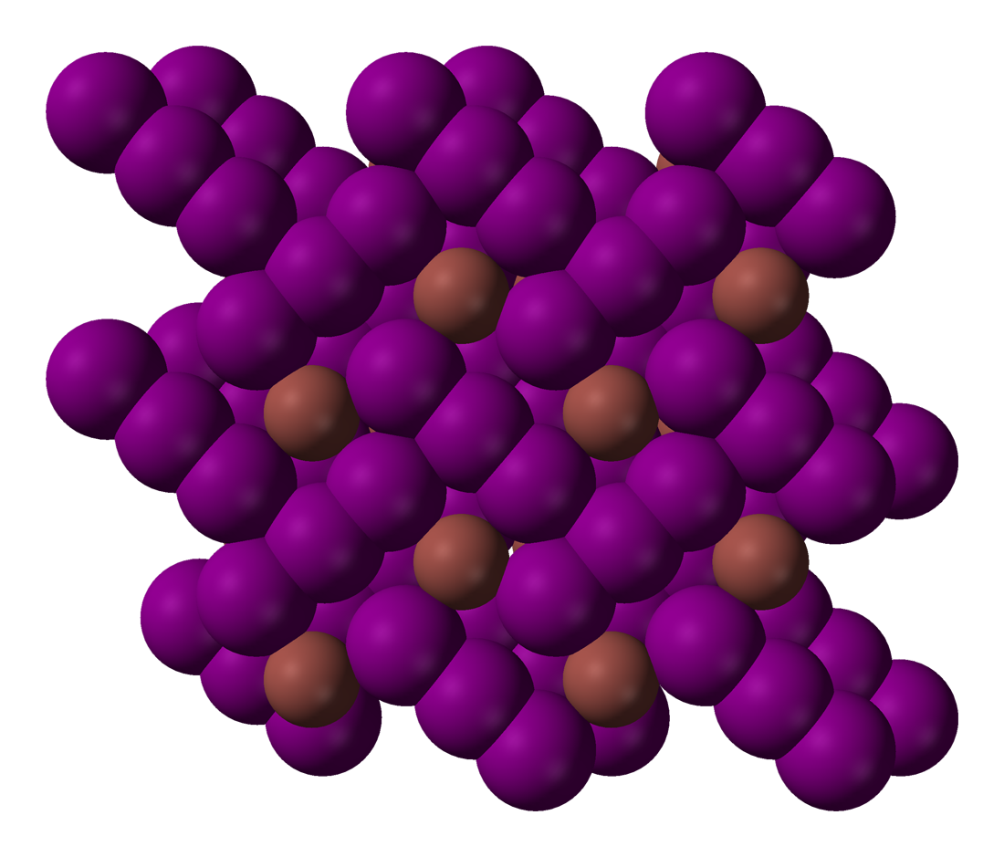 Space-filling model of part of the crystal structure of thallium triiodide, TlI3, better described as thallium(I) triiodide, TlI[I3]. X-ray crystallographic data from Acta Cryst. (1986). C42, 1675-1678. Model constructed in CrystalMaker 8.1. Image generated in Accelrys DS Visualizer.